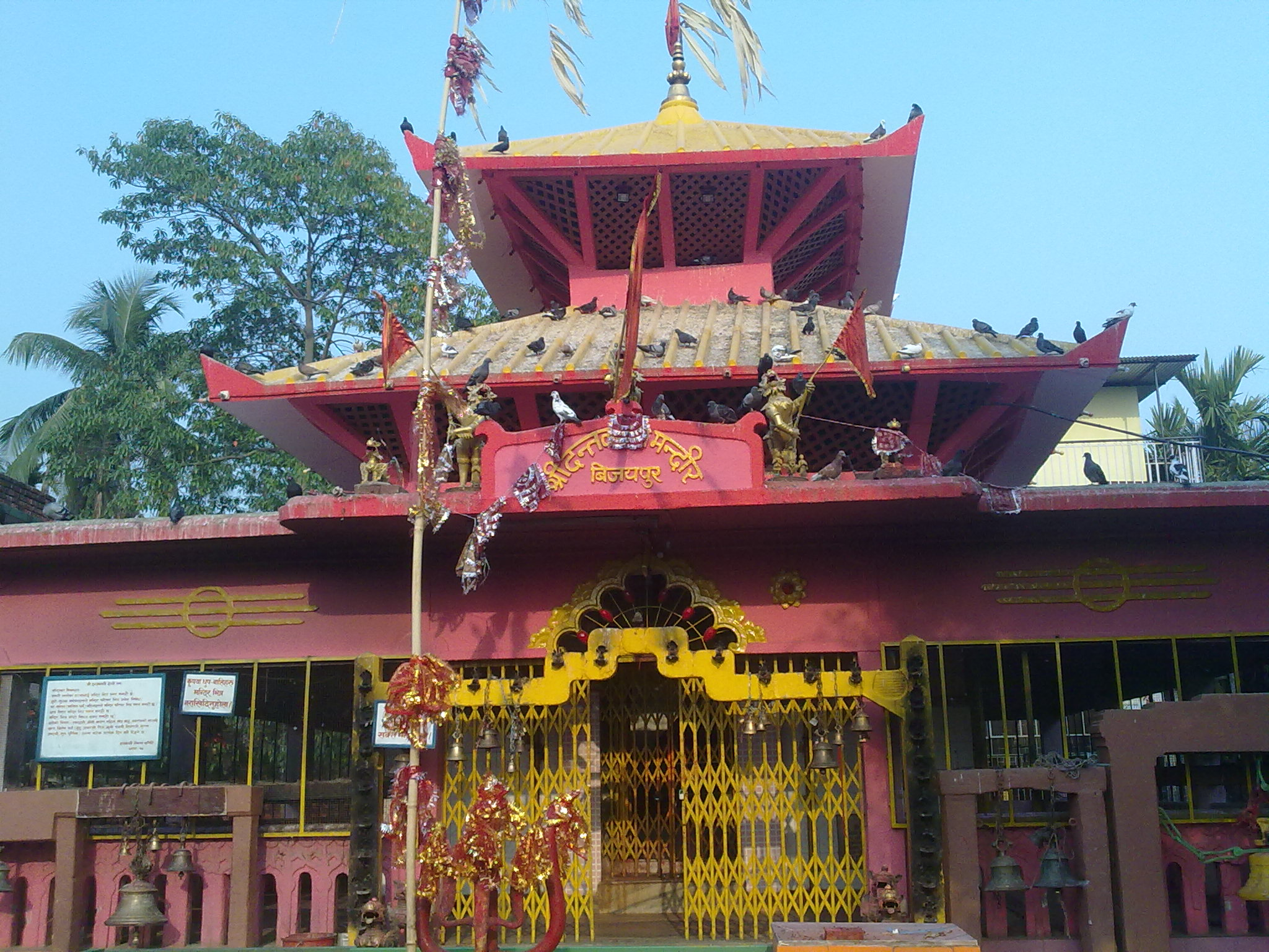 Dantakali dharan